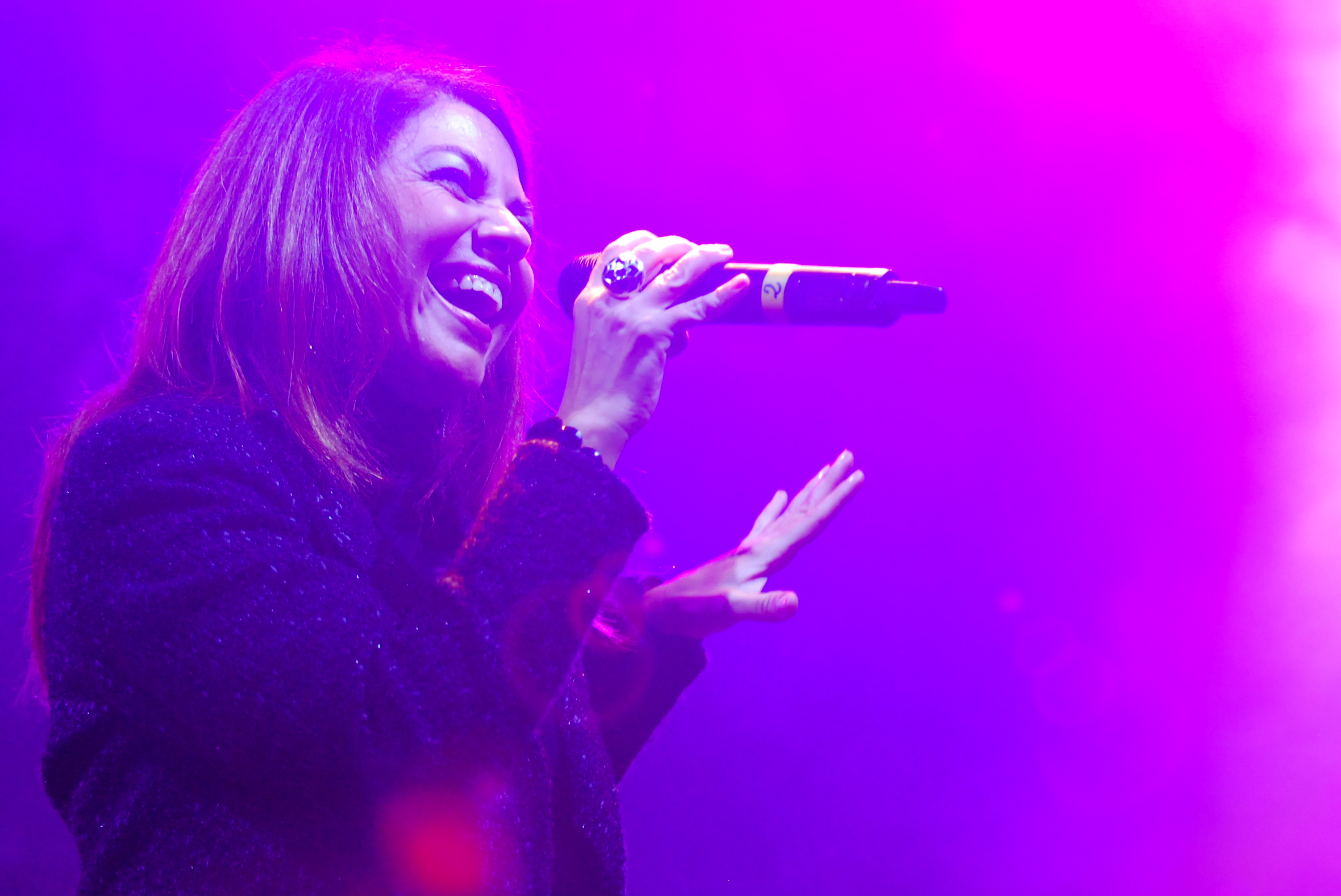 Cristina D'Avena at Lucca Comics & Games 2011